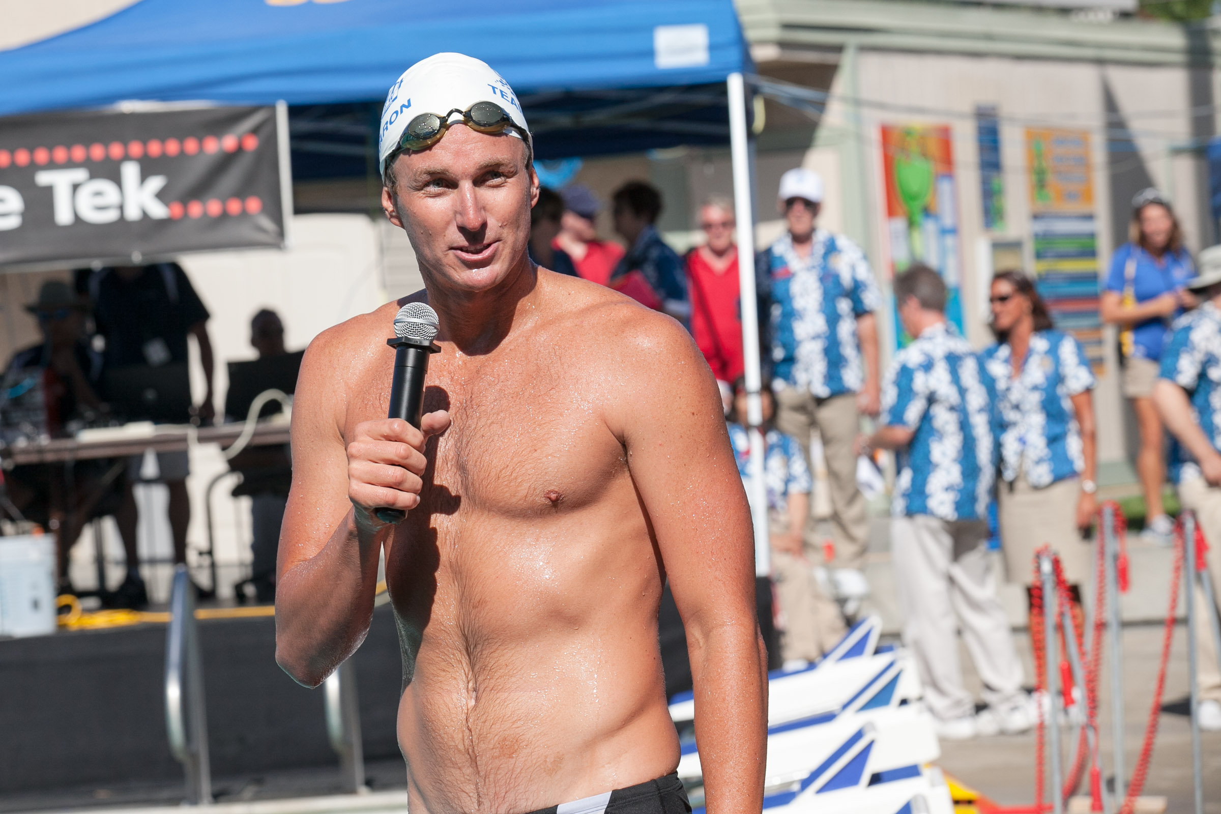 At the 2013 Santa Clara Grand Prix. Photo by JD Lasica.